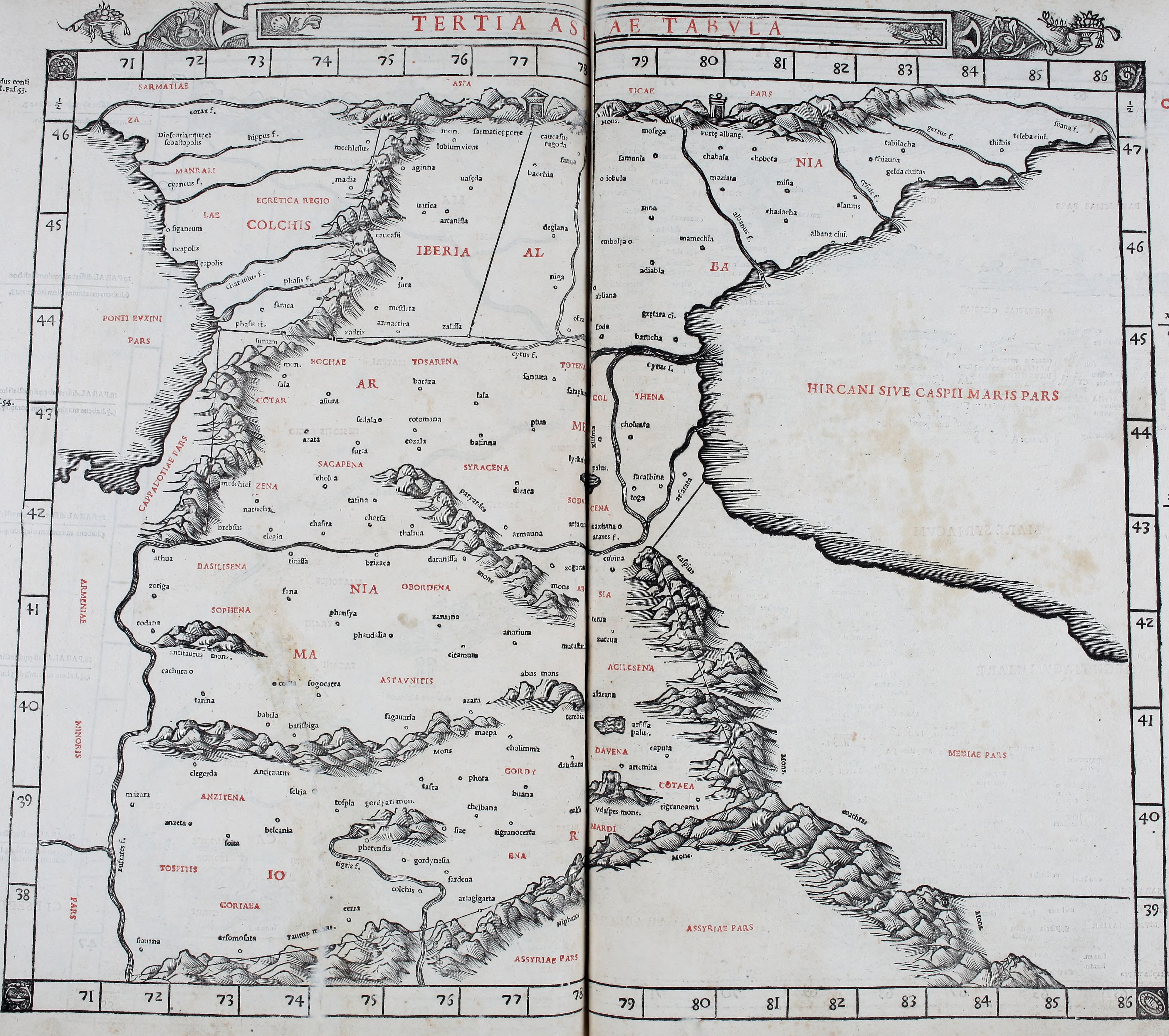 Title: The Third Asian Map (Tertia Asiae Tabula) from Claudii Ptholemaei Alexandrini Liber geographiae cum tabulis et uniuersali figura : et cum additione locorum quae a recentioribus reperta sunt diligenti cura emendatus et impressus Year: 1511 (1510s) Authors: Ptolemy, 2nd cent D'Angelo, Jacopo Silvani, Bernardo John Boyd Thacher Collection (Library of Congress) DLC Subjects: Geography Publisher: Venetiis : Per Iacobum Pentium de Leucho